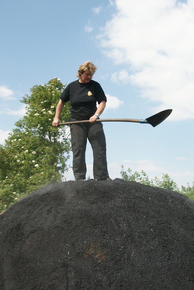 charcoalin